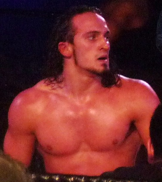 PAC at a Dragon Gate show in Oxford in November 2009.